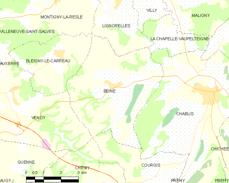 Map of French municipality Beine